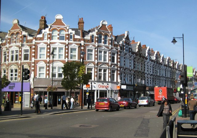 Crouch End: Tottenham Lane, N8 These shops with three storey residential accommodation above are typical of the ones to be found lining Crouch End's main roads. I would guess that they date from the 1890s or 1900s. The road, Tottenham Lane, is also the A103, which must be one of the shortest A roads in the country, running as it does from Lower Holloway only as far as Hornsey.